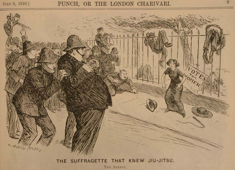 The Suffragette that Knew Jiu-Jitsu. The Arrest. (Edith Margaret Garrud)